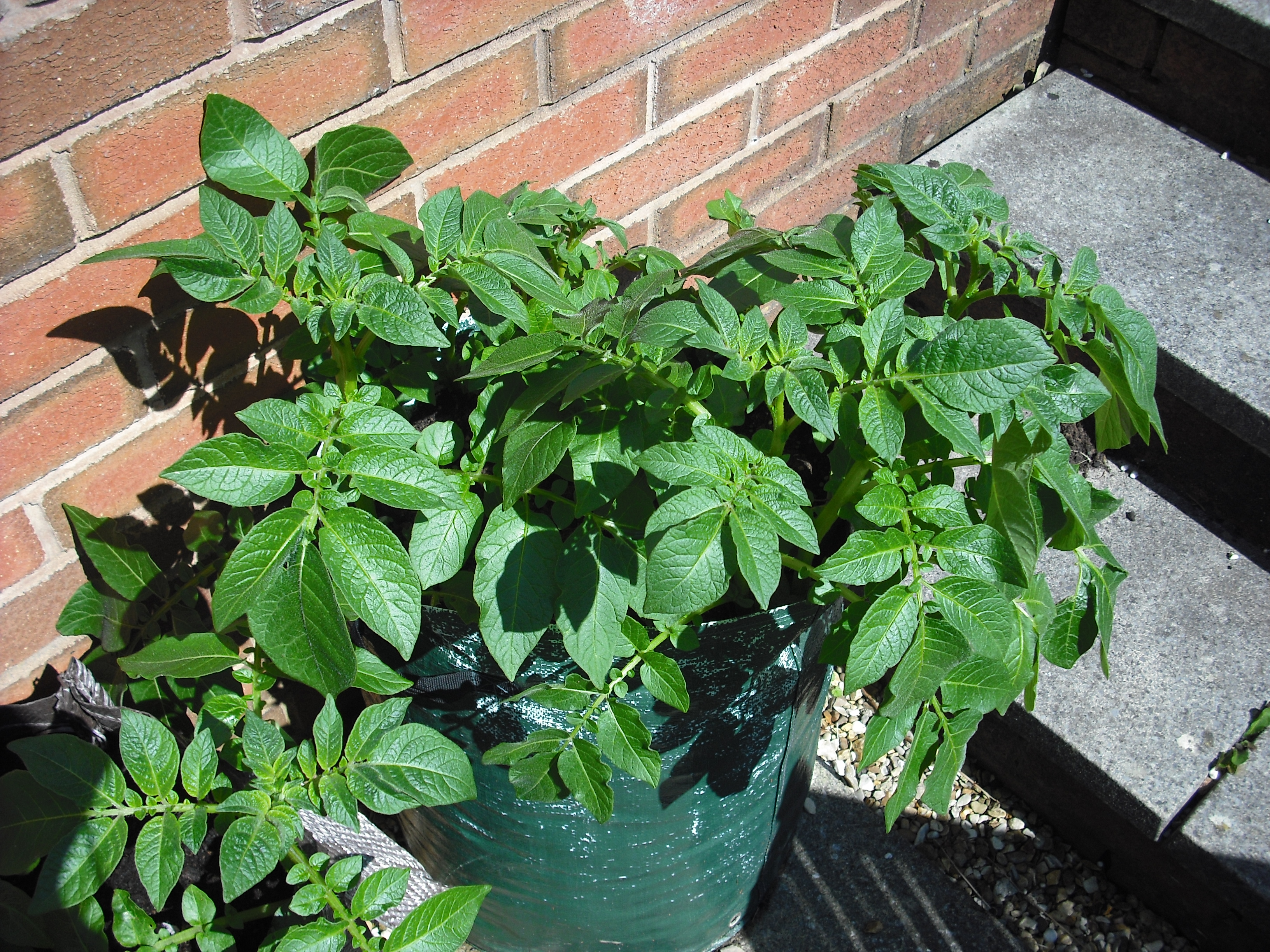 Photo of potato plants growing in a tall potato planter bag, which increases the yield of potatoes and minimalises the amount of digging required at harvest. This bag was harvested on and produced approximately 1.38 kg of potatoes.